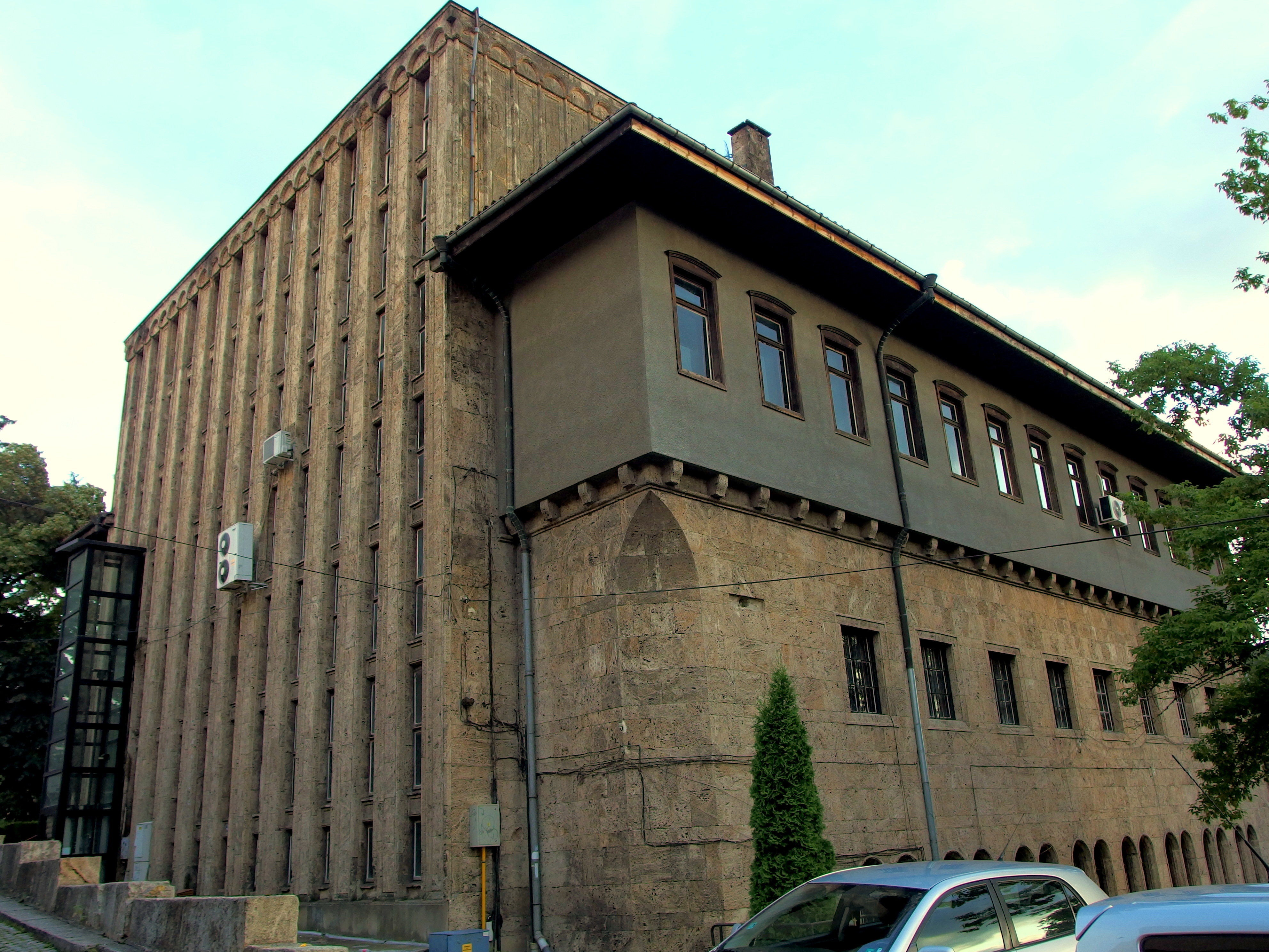 2014-06-20 in Veliko Tarnovo.